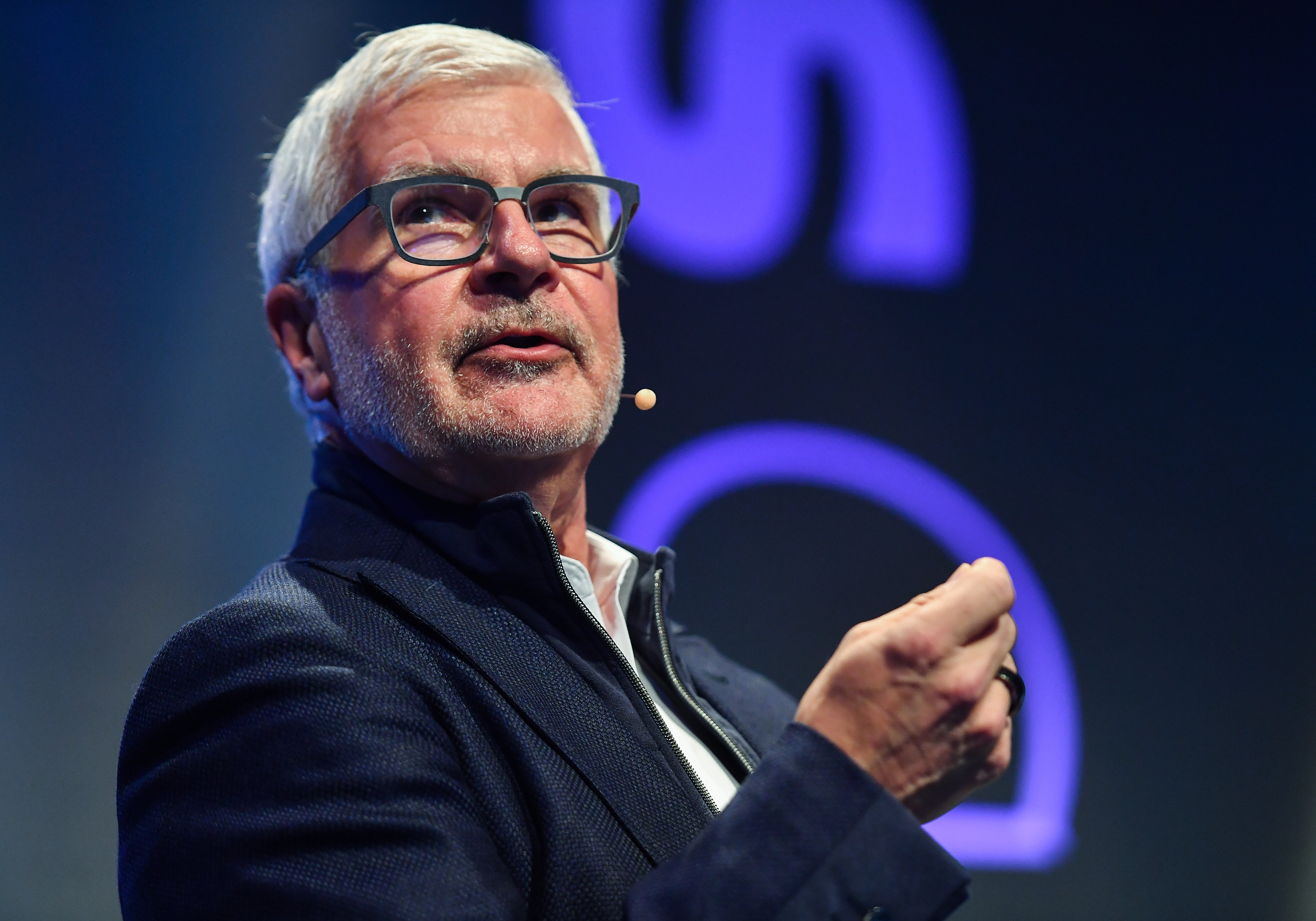 7 November 2019; Steven Gundry, Author, The Plant Paradox, The Longevity Paradox & More, on HealthConf Stage during the final day of Web Summit 2019 at the Altice Arena in Lisbon, Portugal. Photo by Piaras Ó Mídheach/Web Summit via Sportsfile